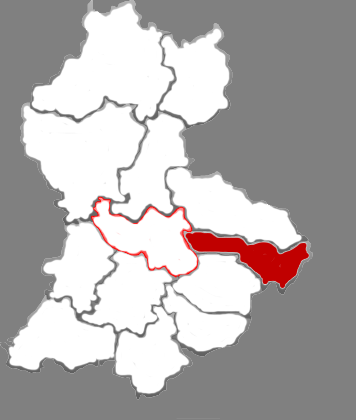 Location of Wenshui county in Lüliang City, China